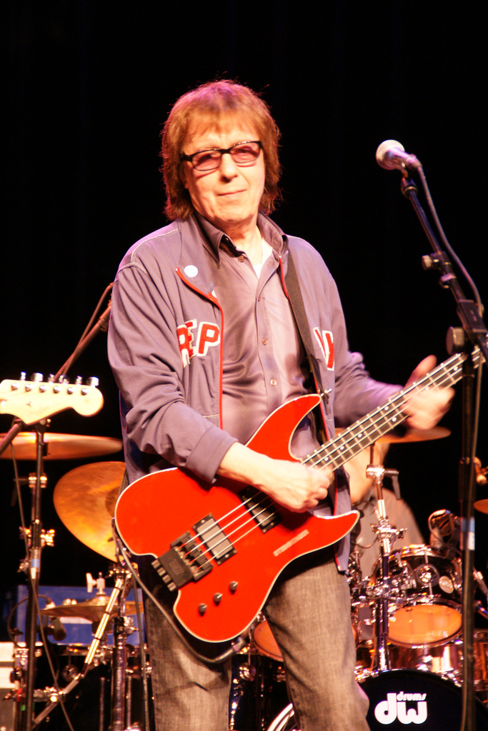 Bill Wyman and his Rhythm Kings Middelburg 27-01-2009